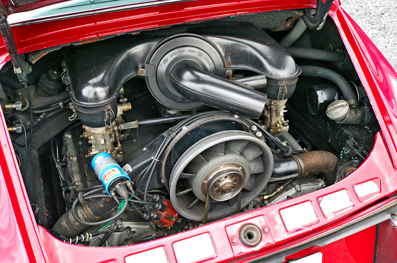 Porsche 911 2.0 ( '66 )